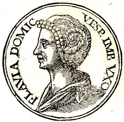 Flavia Domitilla Major was the wife of the Roman Emperor Vespasian.